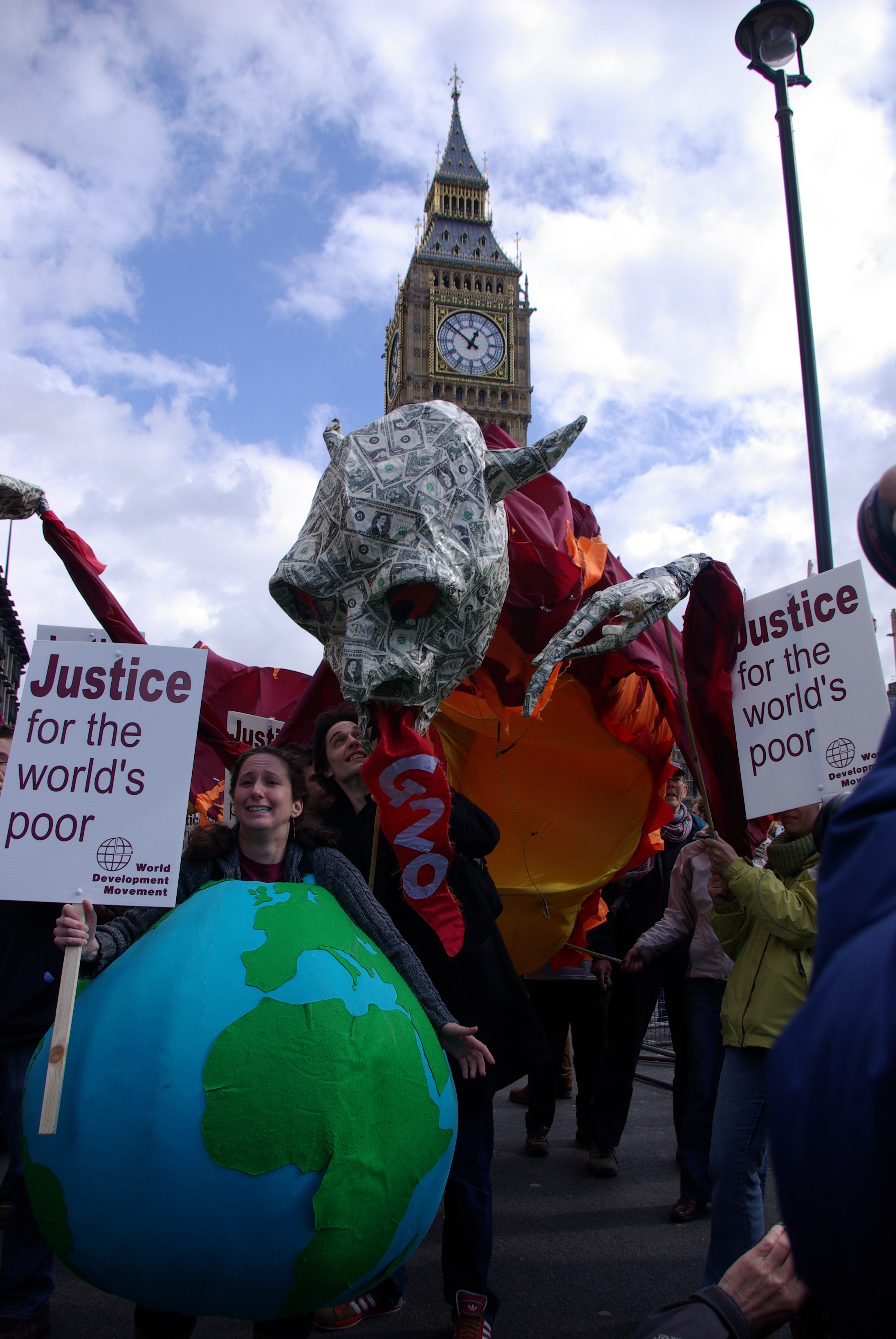 The World Development Movement "G20 monster" on the Put People First march in London on 28 March 2009, by the Houses of Parliament.